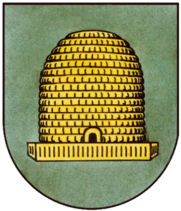 Coat of arms of Scheidt (Rhein-Lahn-Kreis)